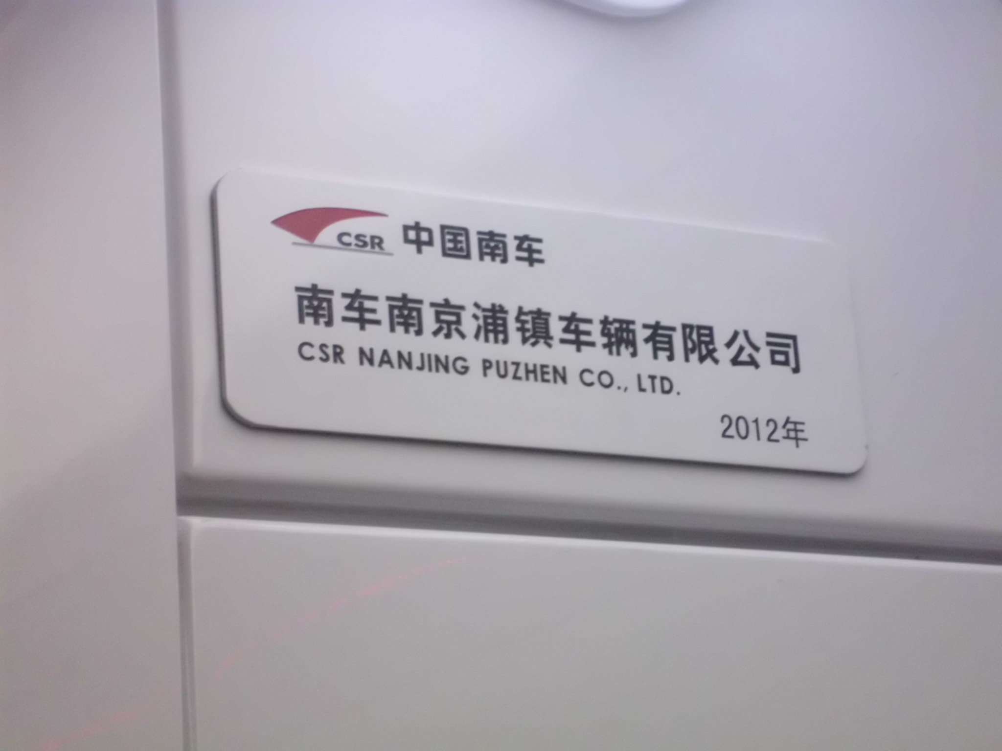 Hangzhou Metro